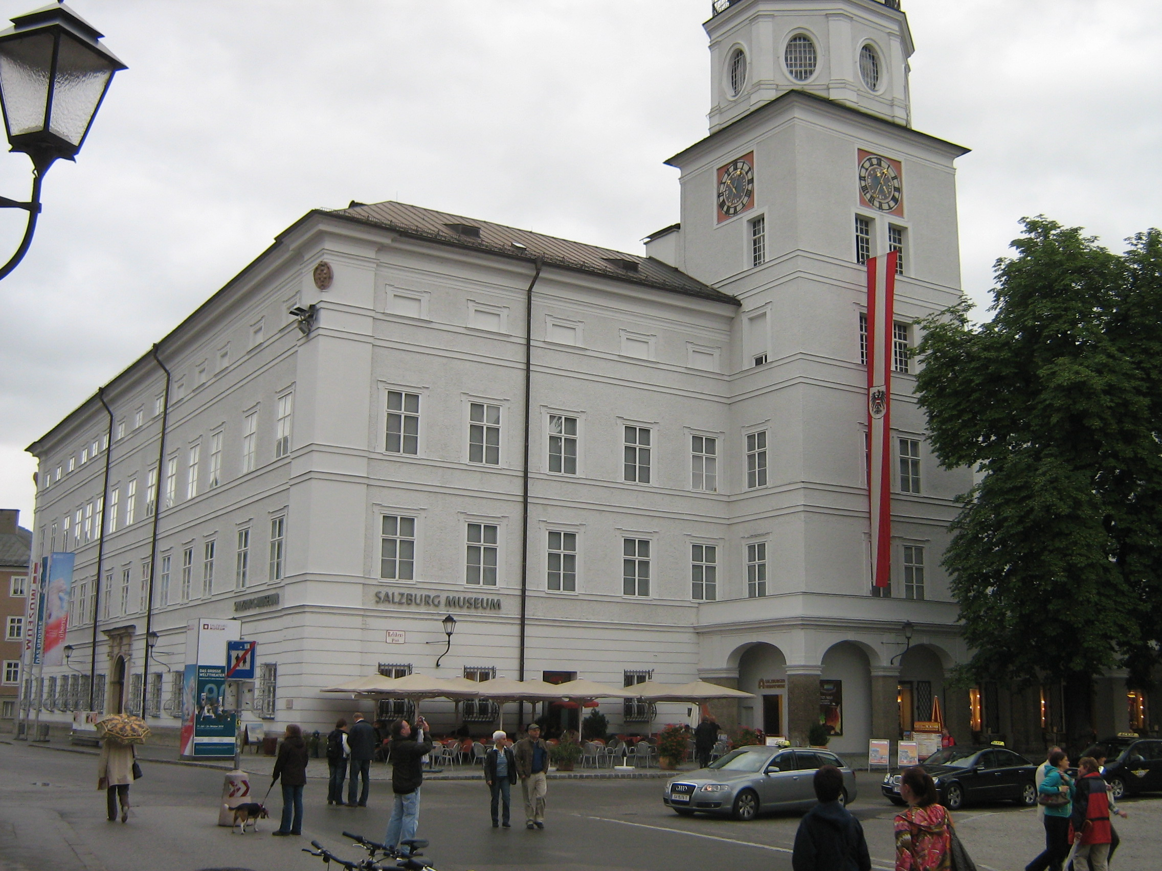 Austria, Salzburg, Residenzplatz